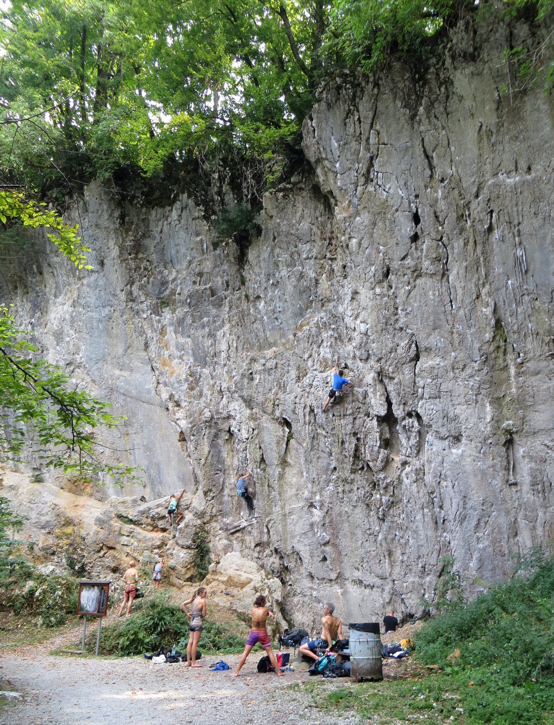 Rock wall above Cliff Spring (Pod skalo; part of Retovje Springs) in Verd, Municipality of Vrhnika, Slovenia